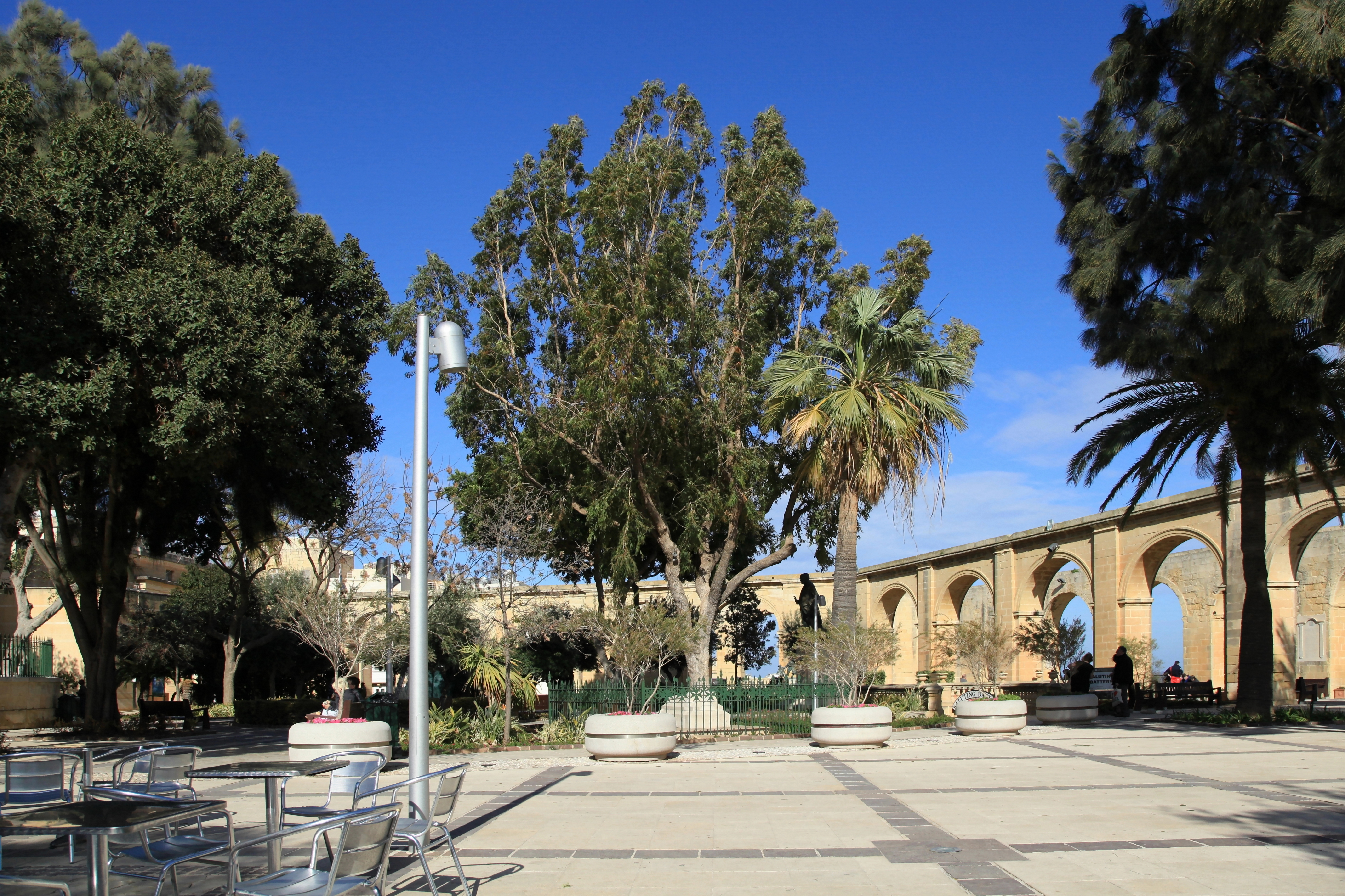 Upper Barrakka Gardens, Pjazza Kastilja in Valletta, Malta